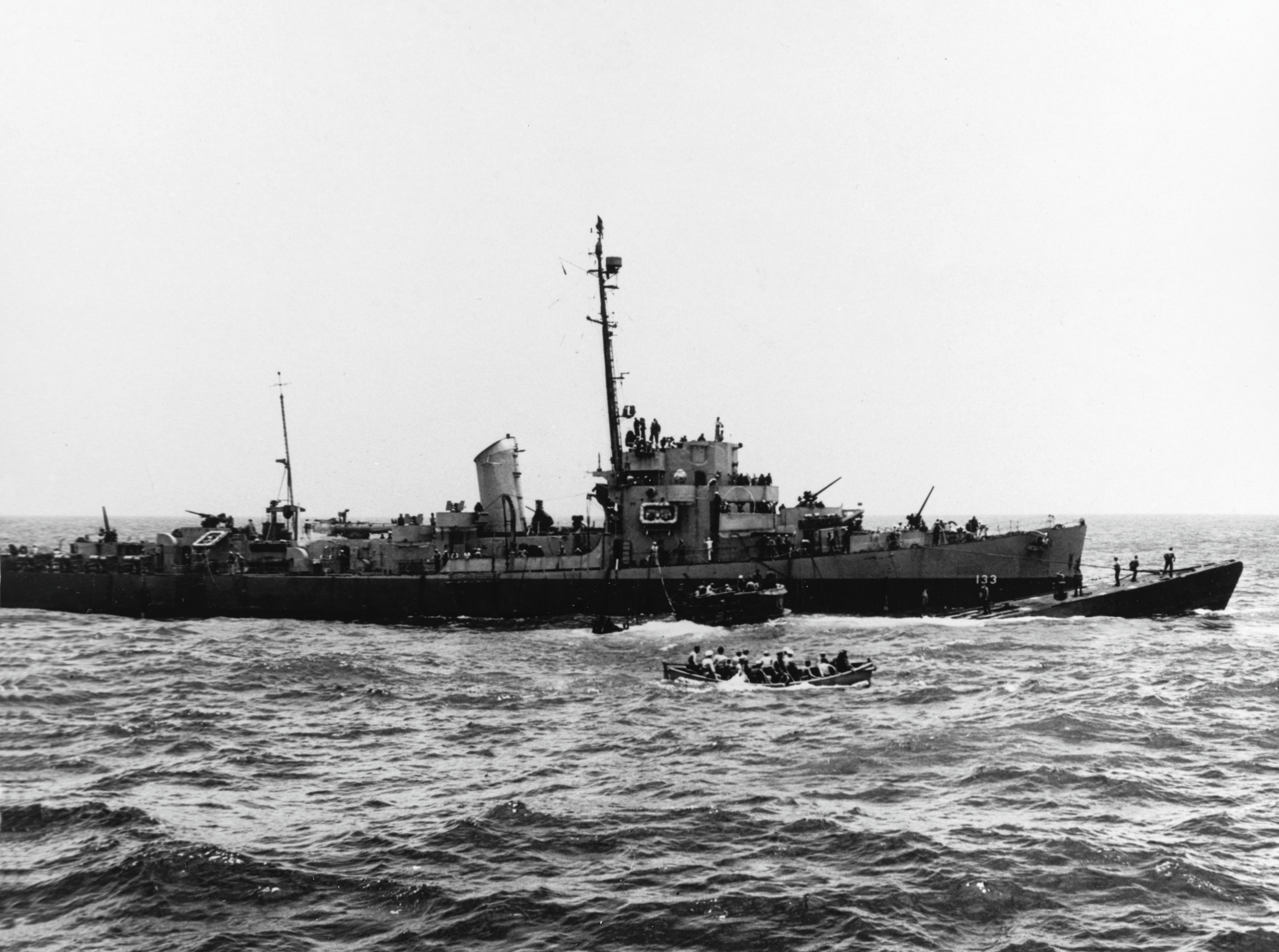 The U.S. Navy destroyer escort USS Pillsbury (DE-133) tied up to the German submarine U-505 on 4 June 1944, after a U.S. Navy boarding party had captured the submarine. Note the heavily loaded whaleboat in the foreground.